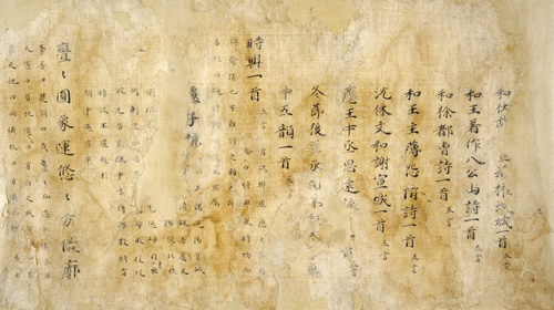 Annotated edition of Wen Xuan (文選集注, monsen shicchū). Chinese poetry collection. Part of Seven scrolls, ink on paper. Located at Tōyō Bunko, Tokyo.